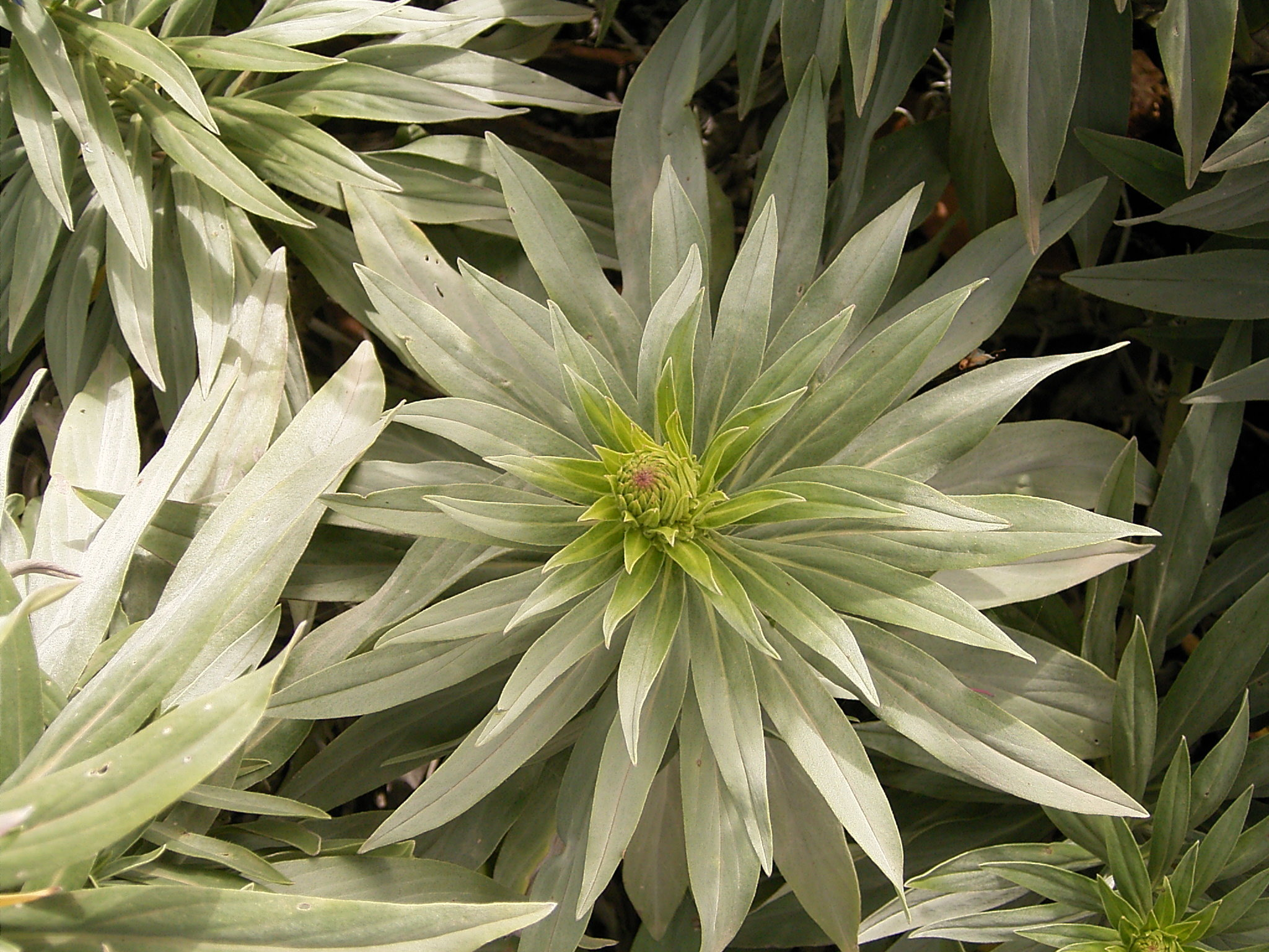 Echium webbii growing in Puntallana, La Palma, Canary Islands